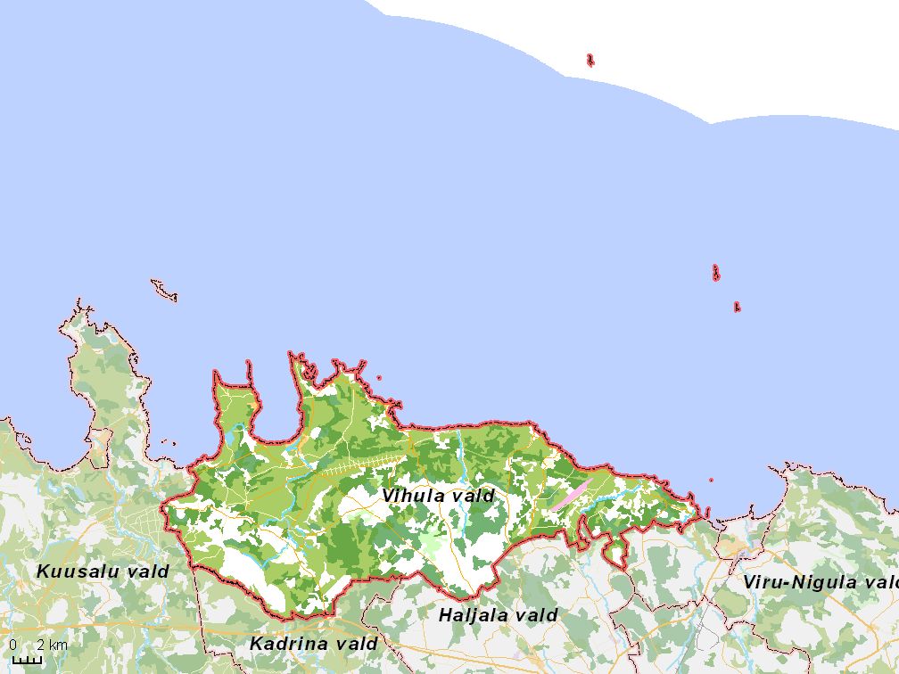 Map of municipality in Estonia